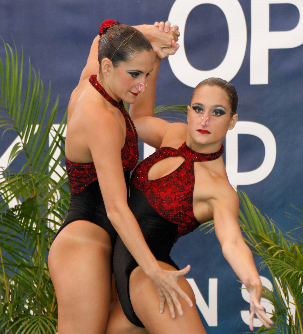 Etel Sanchez and Sofia Sanchez, duet technical routine, Open Make Up For Ever.